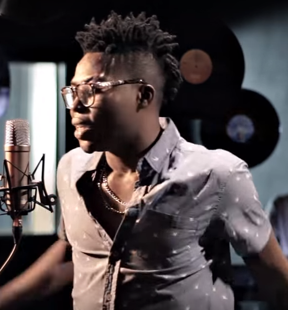 Ayoleyi Hanniel Solomon (born 6 December 1993), better known by his stage name Reekado Banks, is a Nigerian recording artist, rapper and songwriter, signed to Mavin Records.